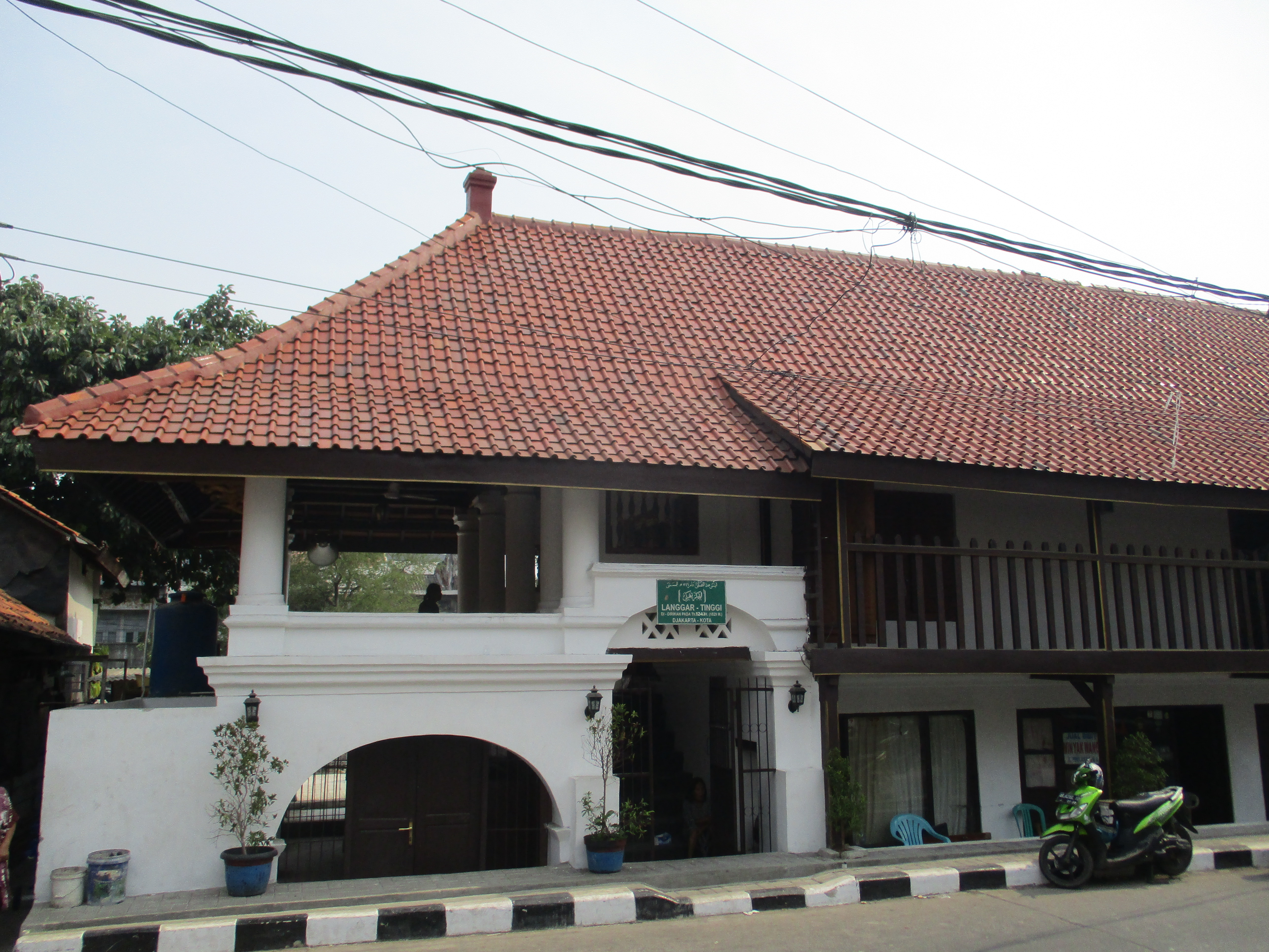 Masjid Langgar Tinggi, Pekojan, Jakarta